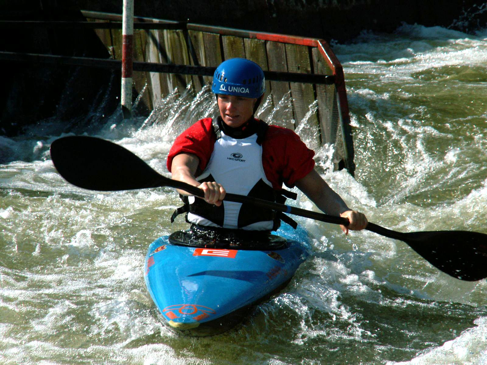 Štěpánka Hilgertová during training